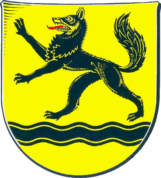 Coat of arms of Schwarzenbek Blasonierung: In Gold ein steigender schwarzer Wolf mit roter Zunge über einem schwarzen Wellenbalken im Schildfuß.